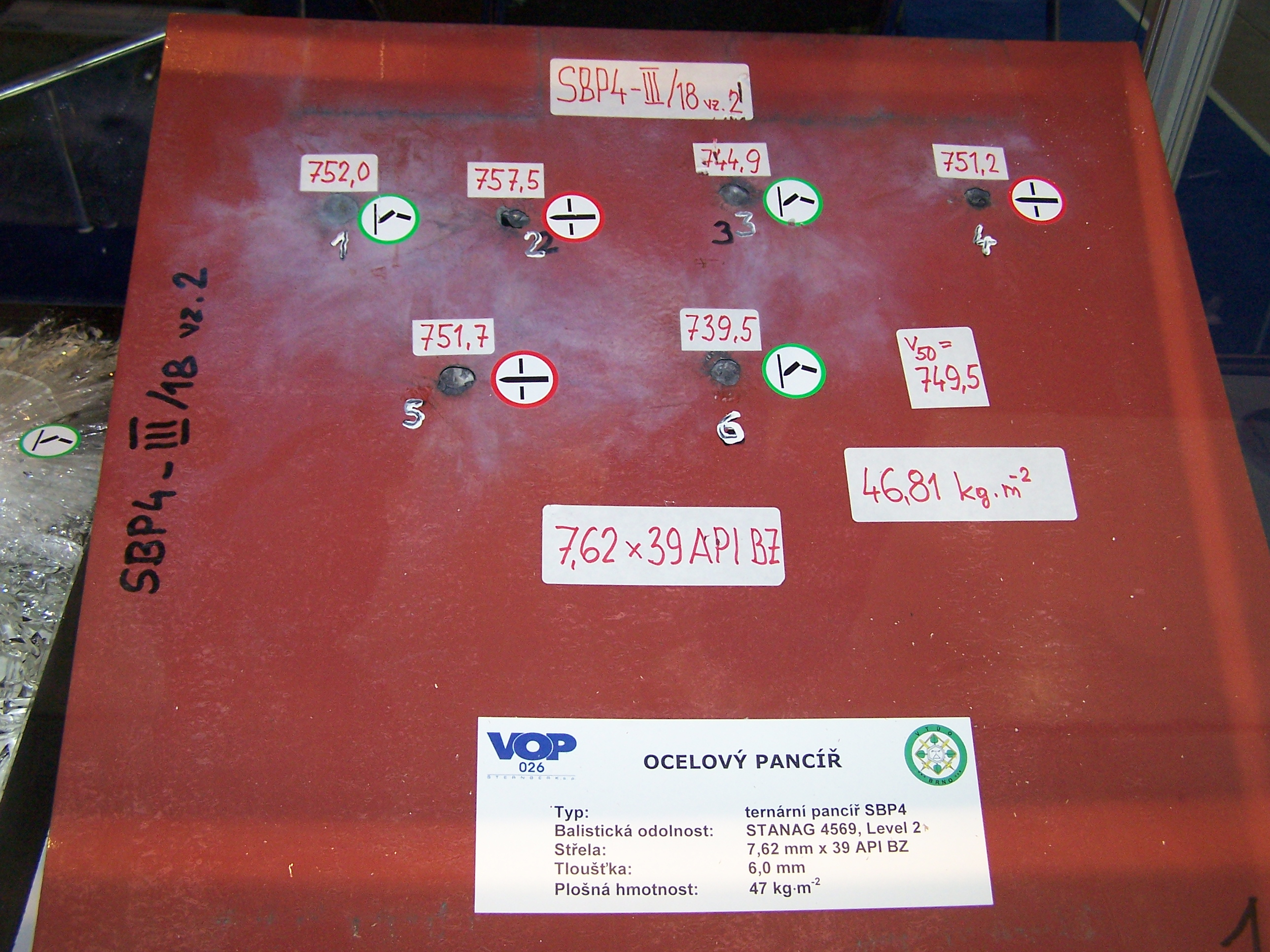 Steel armor plate ballistic test, ballistic level 2, thickness 6 mm, mass 47 kg/m2